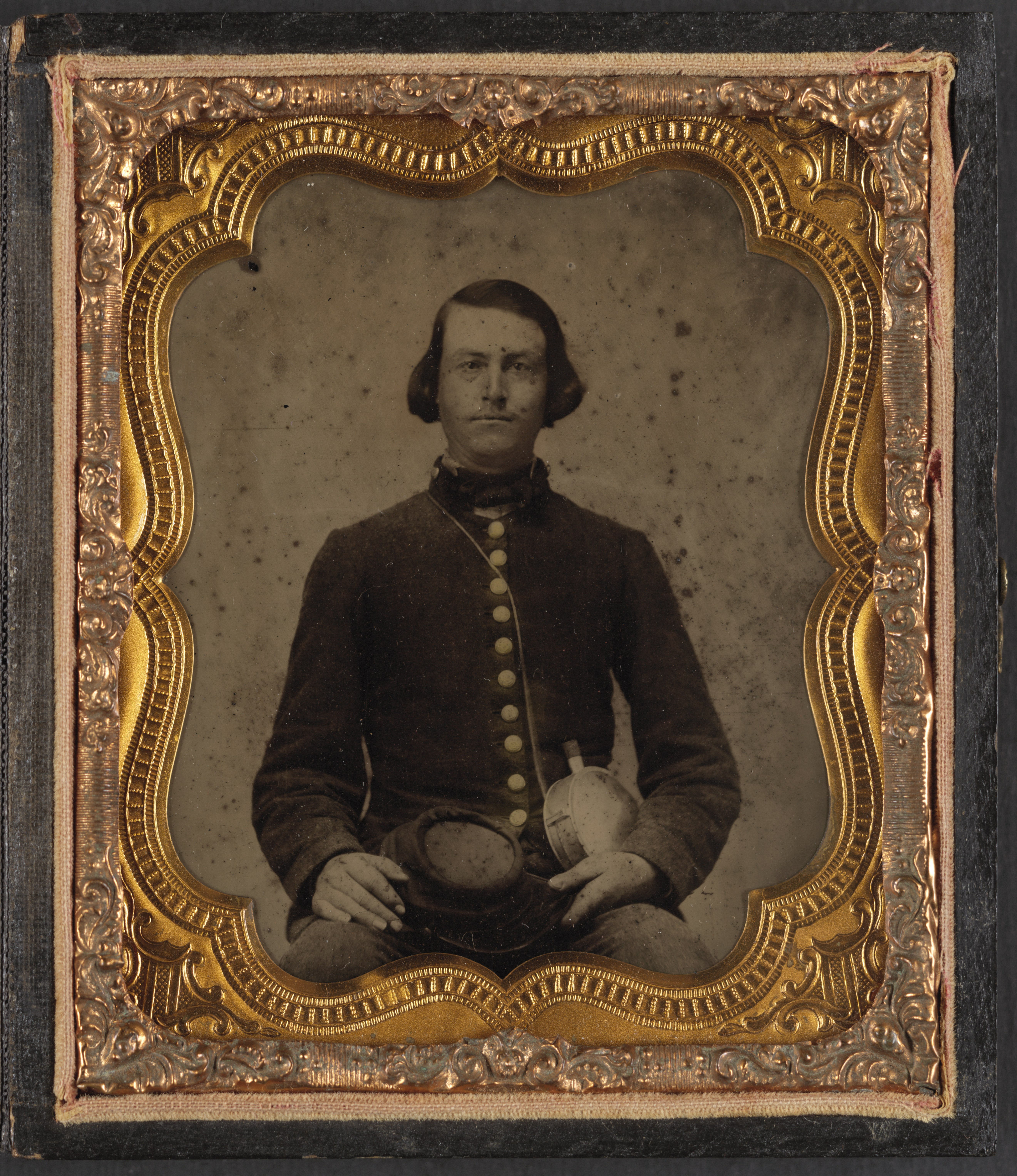 Title: Private Amos Guise of Co. H, 3rd South Carolina Infantry Regiment, in uniform with canteen Abstract/medium: 1 photograph : sixth-plate ambrotype ; 9.2 x 8.1 cm (case)